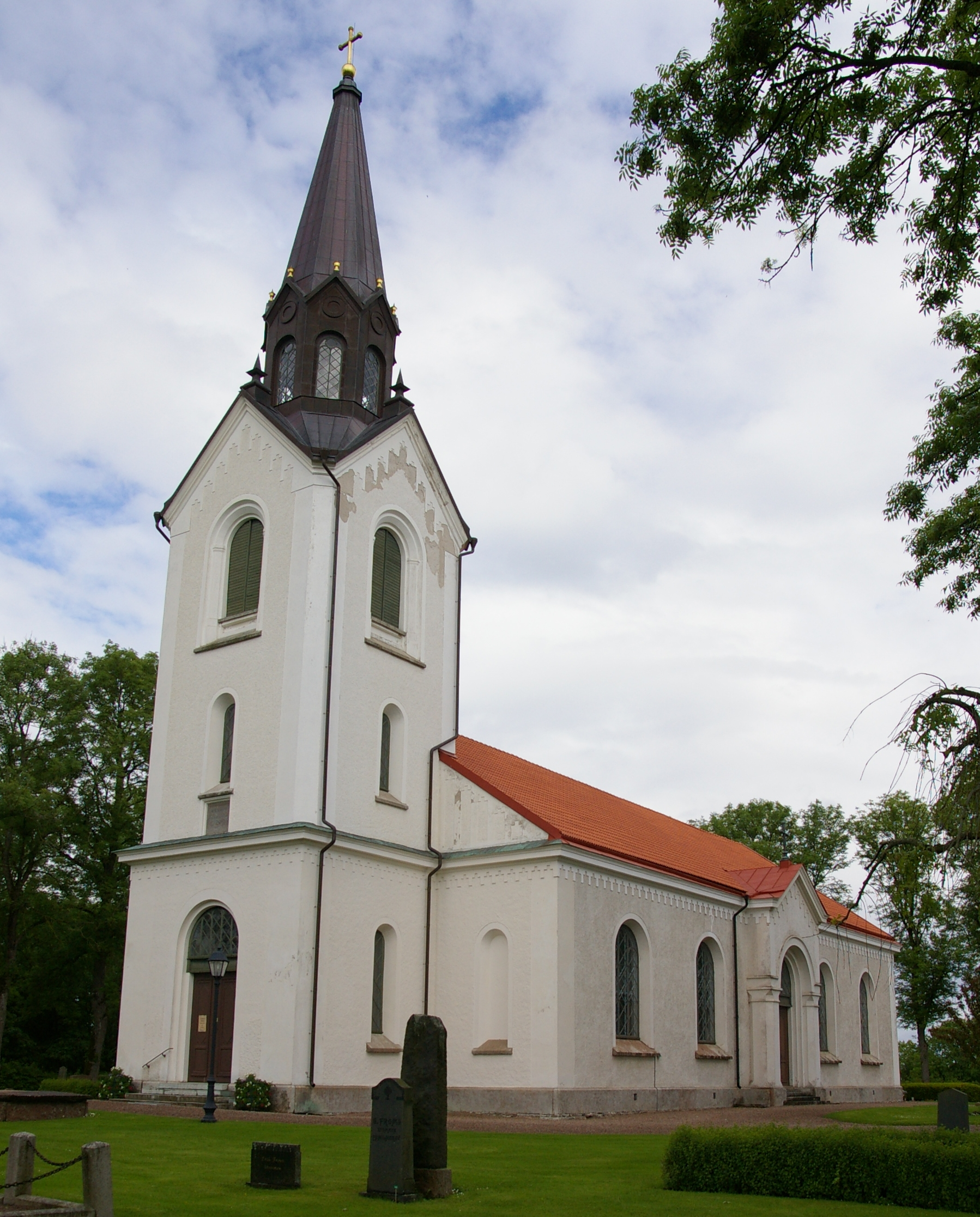 Torbjörntorps kyrka (Swedish:Church of Torbjörntorp) in Västergötland, Sweden. The church was erected in 1872, and replaced an earlier medieval church.